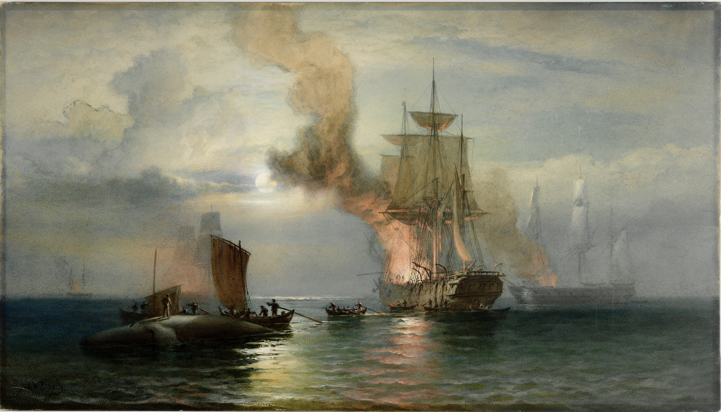 “South Sea whalers boiling blubber/boats preparing to get a whale alongside.” A watercolour by British artist Sir Oswald Brierly. The painting dates from c1876.